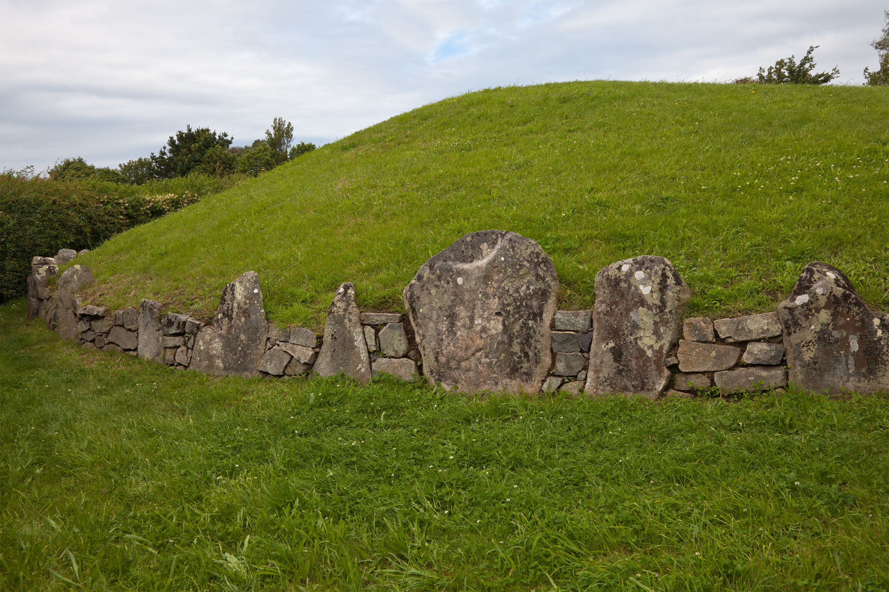 Le Dehus, prehistoric passage grave, Guernsey